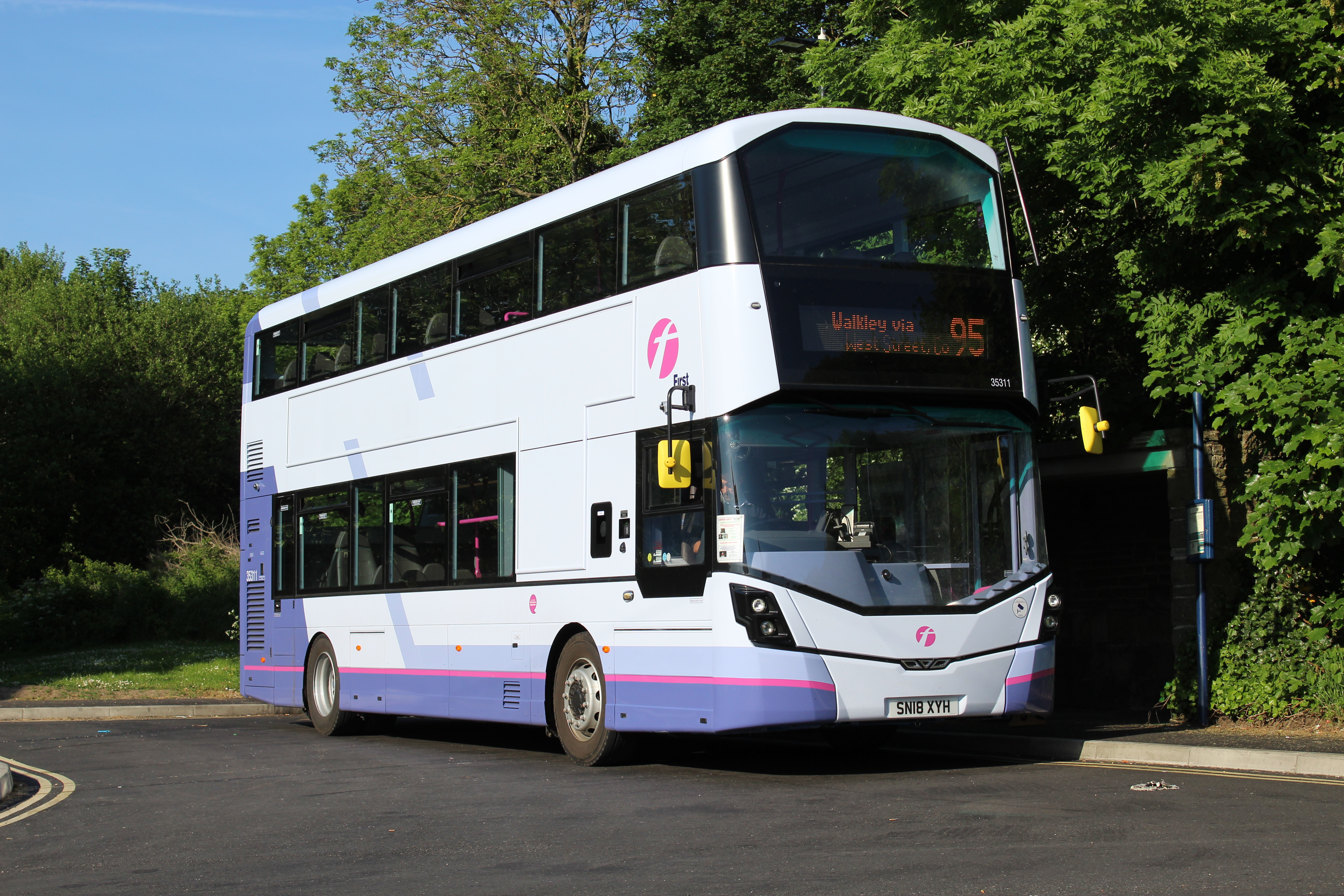 First Sheffield Wright StreetDeck Hybrid SN18XYH (35311) at the Walkley terminus of route 95 on it's first day in service, 24 May 2018.